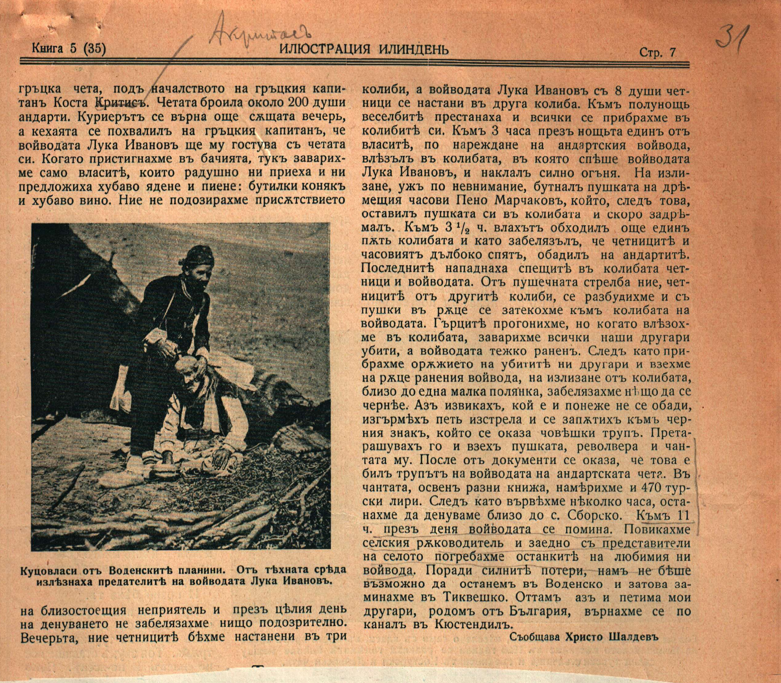 Hristo Silyanov